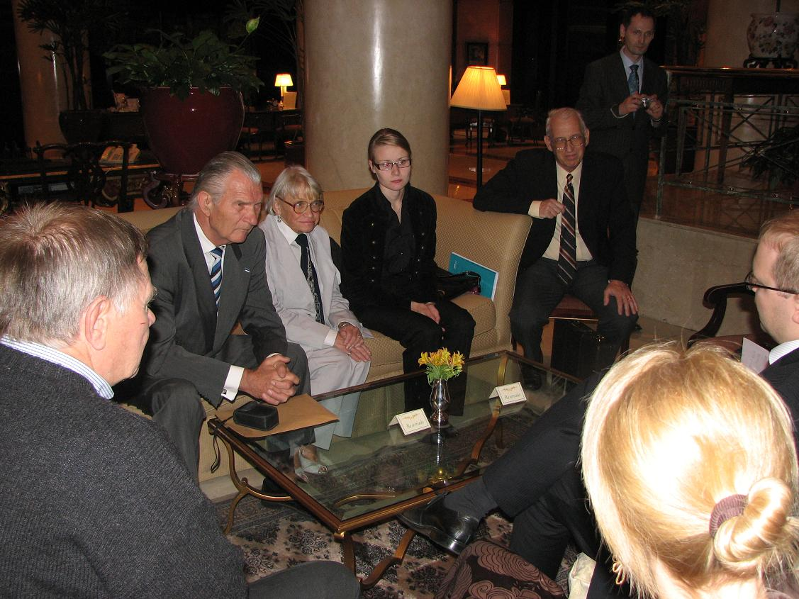 Foreign Minister meeting with Estonians living in Argentina